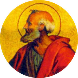 Portait of Pope Simplicius in the Basilica of Saint Paul Outside the Walls, Rome